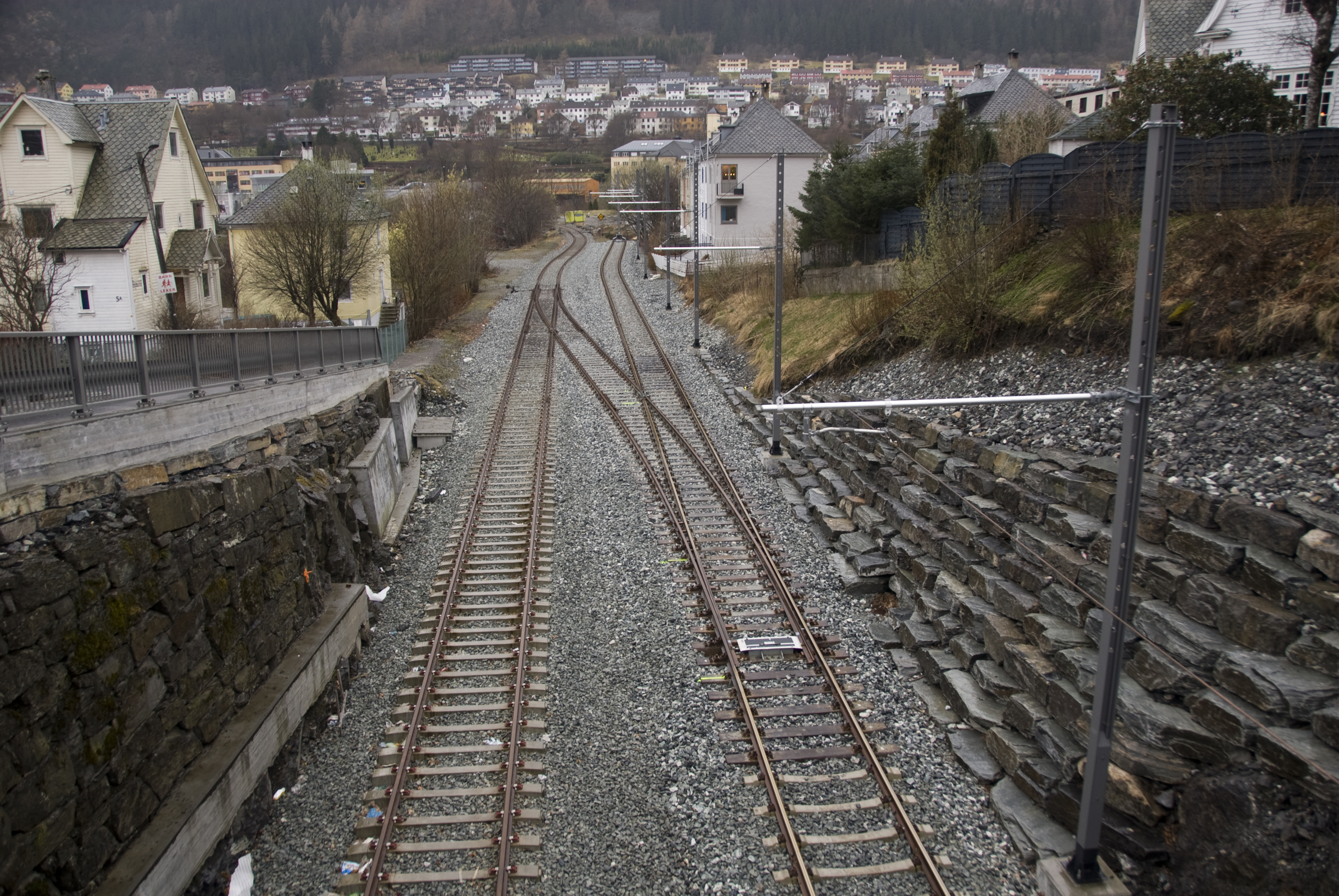 Transition between Bergen Light Rail and mainline railway at Kronstad